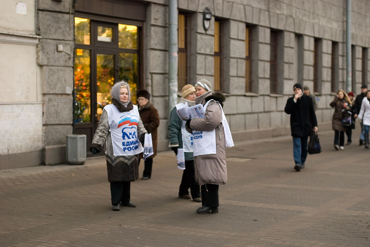 Election advertising of the party "United Russia" in Saint Petersburg, Russia, nearby the metro station "Tekhnologichesky institut", November, 2007